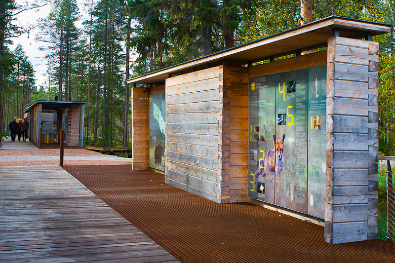 Information point, close to the main entrance of Hamra national park